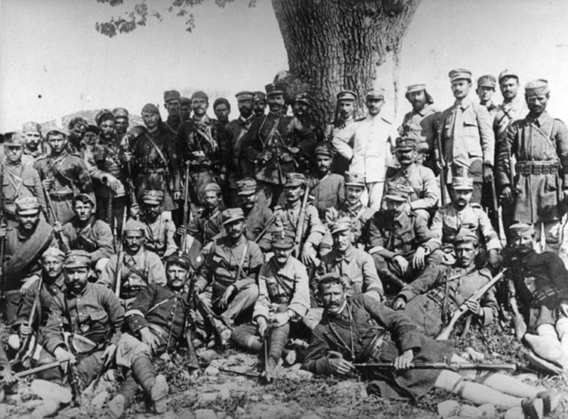 United cheta of Konstantinos Mazarakis during the balkan wars